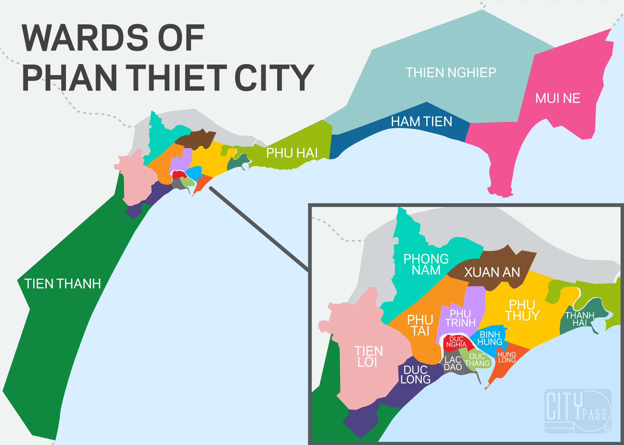 Color Map of the Wards of Phan Thiet